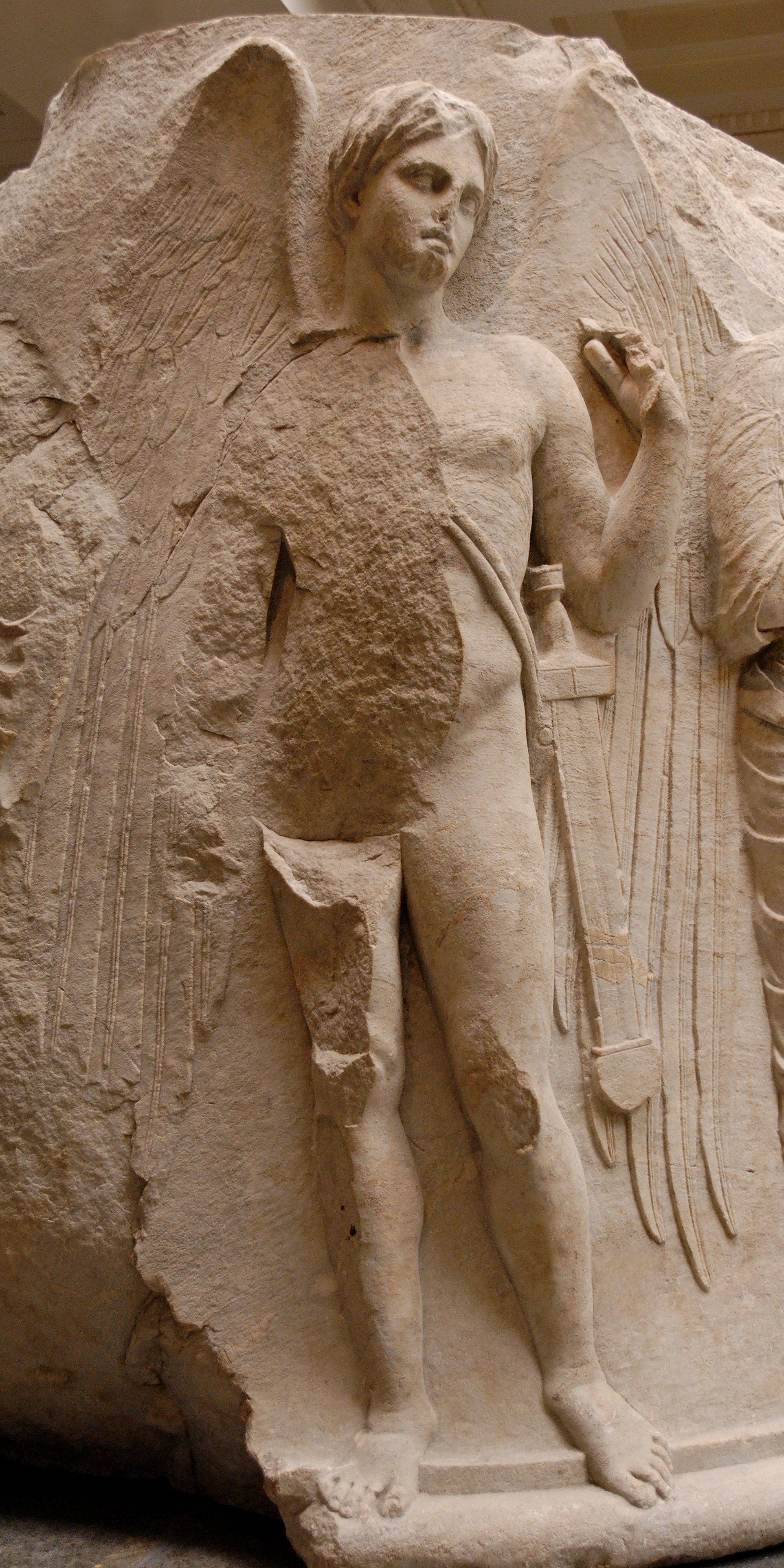 Winged youth with a sword, probably Thanatos, personification of death. Detail of a sculptured marble column drum from the Temple of Artemis at Ephesos, ca. 325-300 BC. Found at the south-west corner of the temple.